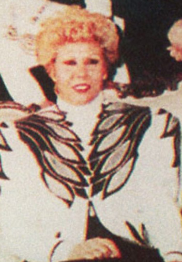 Sajida Talfah (first wife of Saddam Hussein)